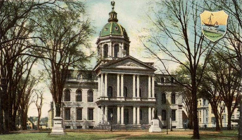 State House, Concord, NH; from a c. 1906 postcard. This shows the building as it appeared after an enlargement designed by Gridley James Fox Bryant was completed in 1866, and before another enlargement by Peabody and Stearns was completed in 1910.